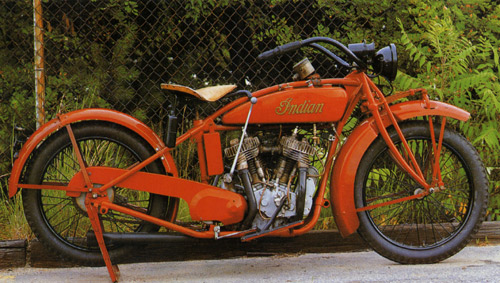 inuyama